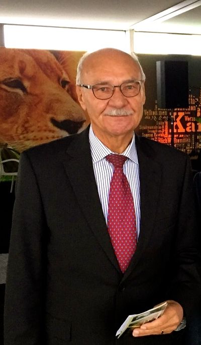 Хайнц Рёдер (Heinz Röder)